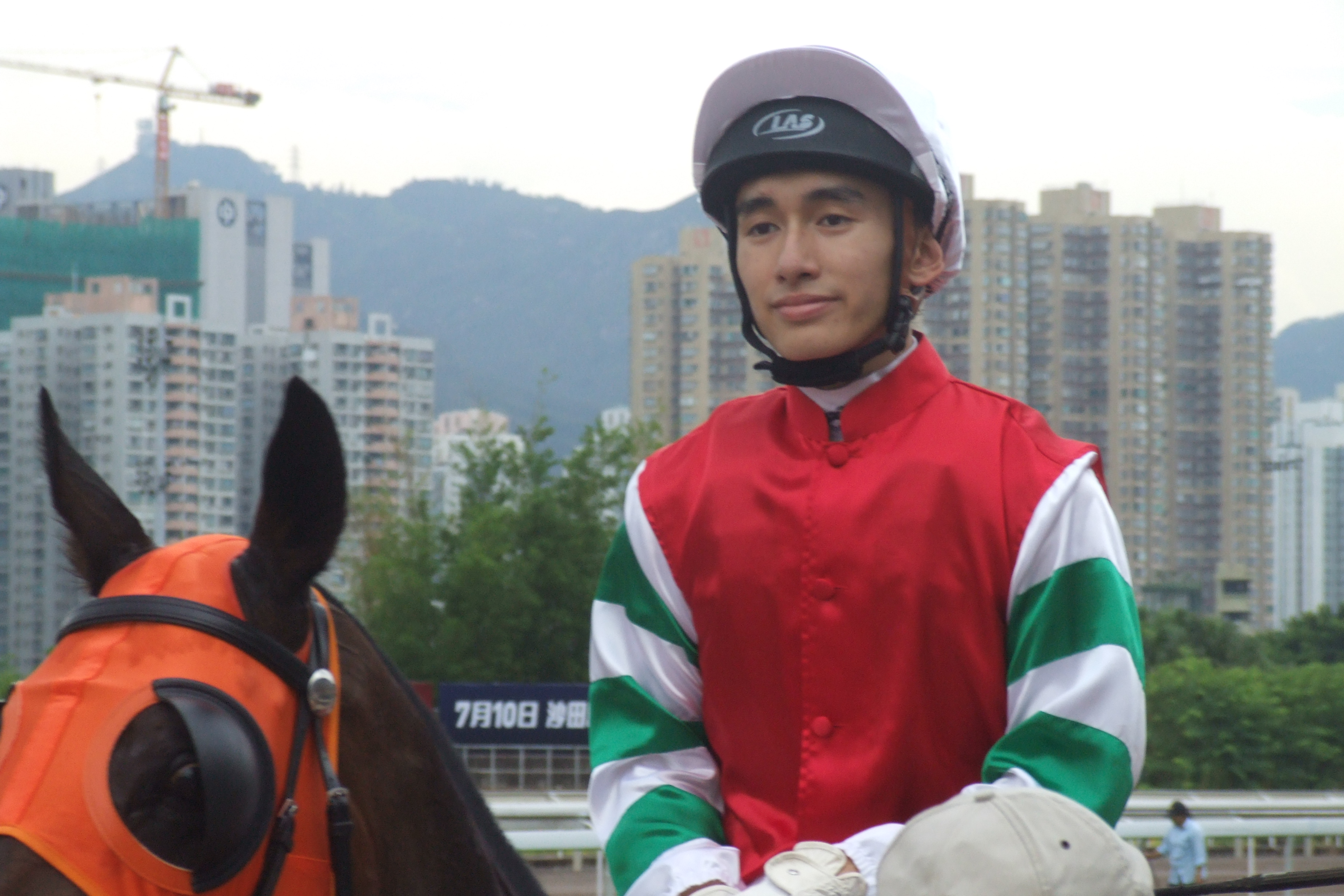 Alvin Ng